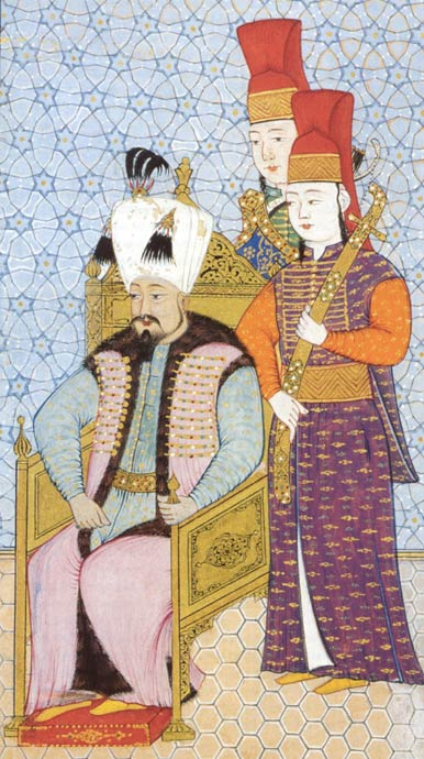 Sultan Mehmed IV "the Hunter". Ottoman miniature painting, located at Istanbul Üniversitesi Rektörlügü, Istanbul (Inv. T. 9365, Fol. 18r)